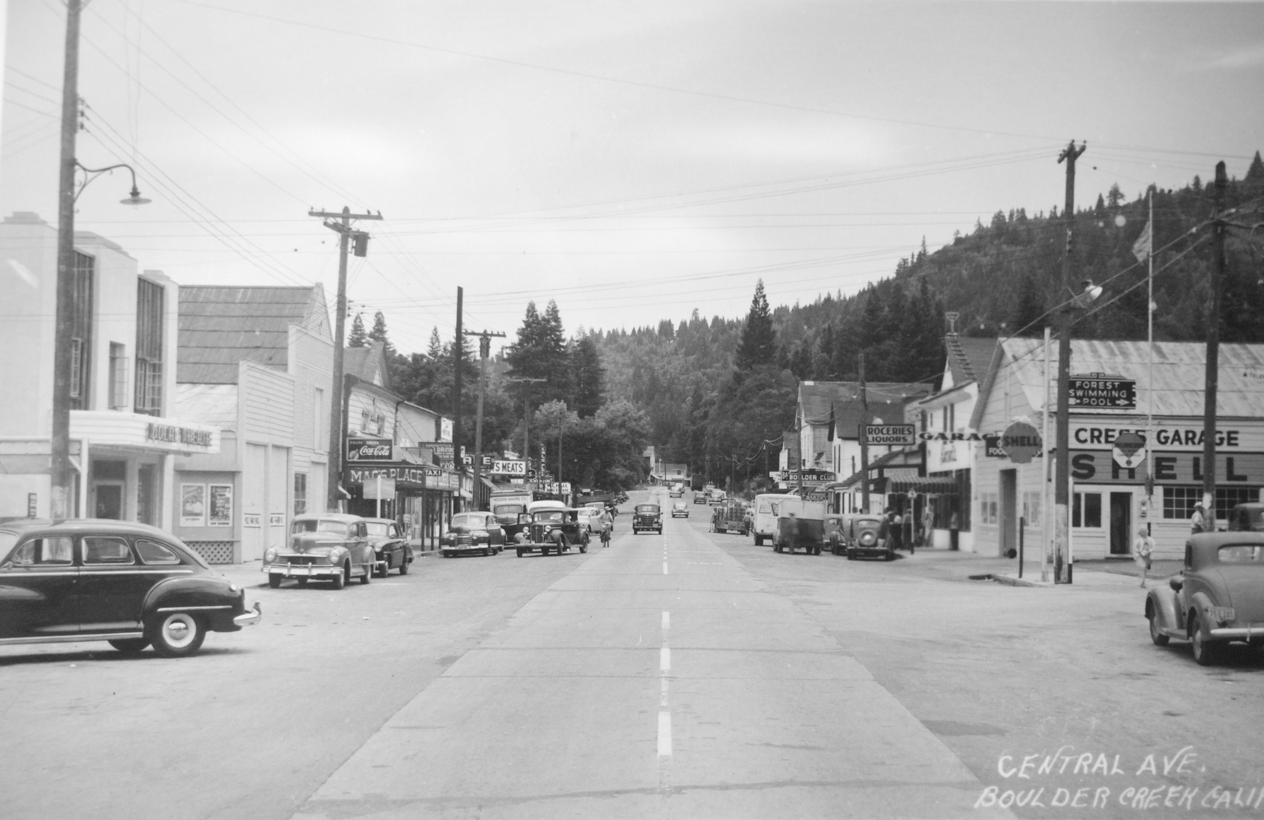 Circa 1947 image of Central Avenue, now Highway 9, Boulder Creek looking south.